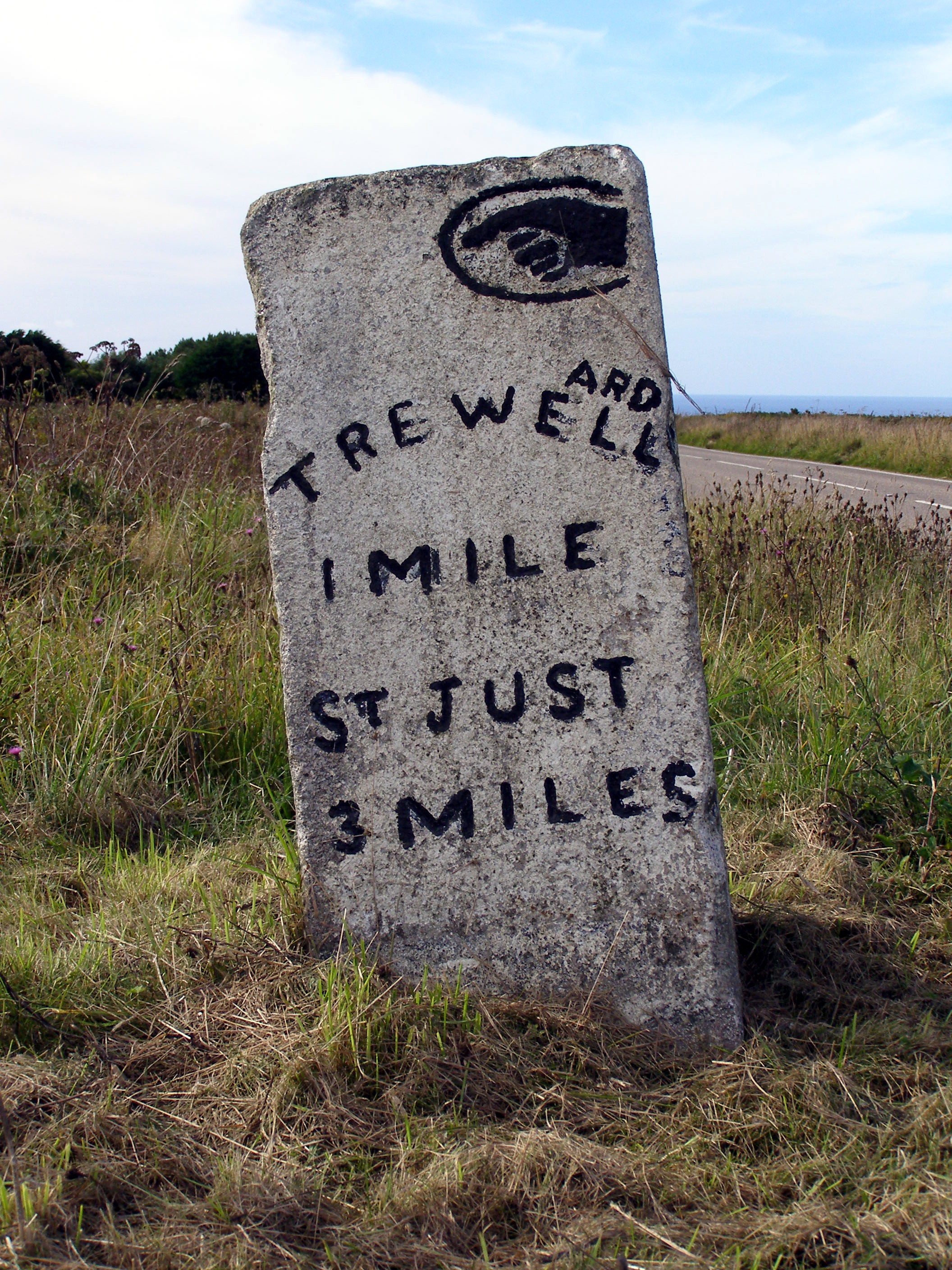 Milestone pointing to Trewell(ard) at the junction of the B3318 west of Woon Gumpus common, Penwith, Cornwall